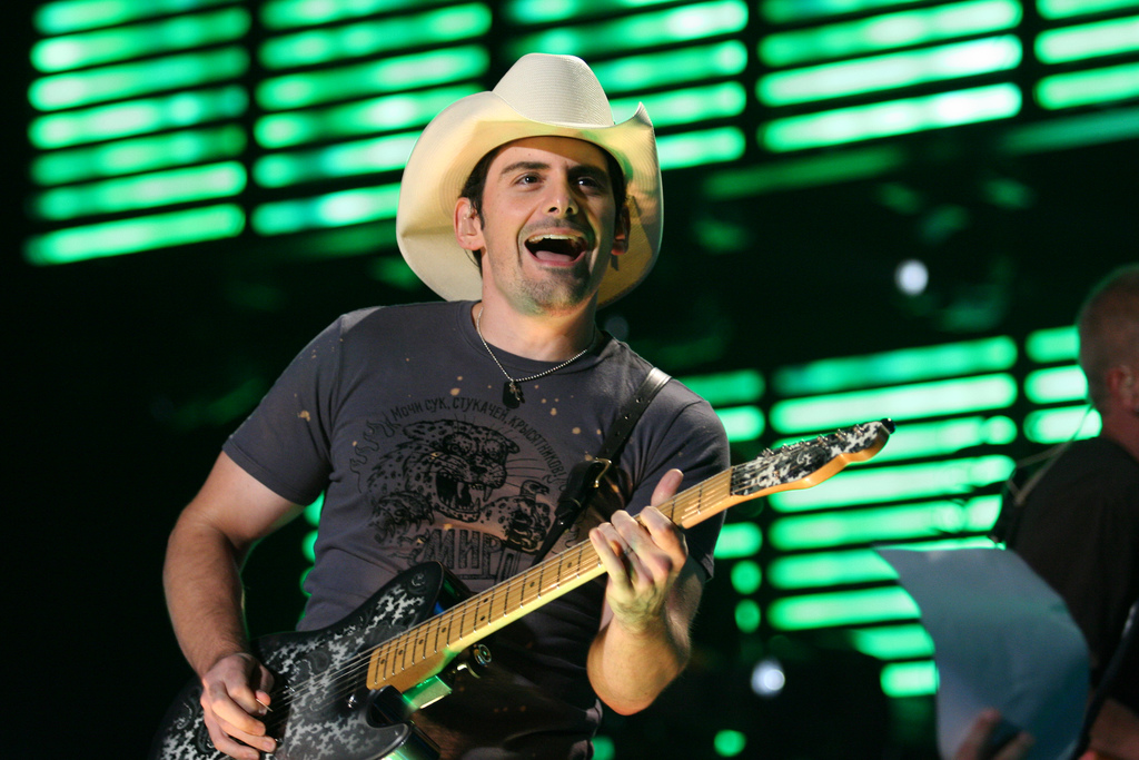 American country musician Brad Paisley performing live at the Jacksonville Veterans Memorial Arena in Jacksonville, Florida, August 10, 2007